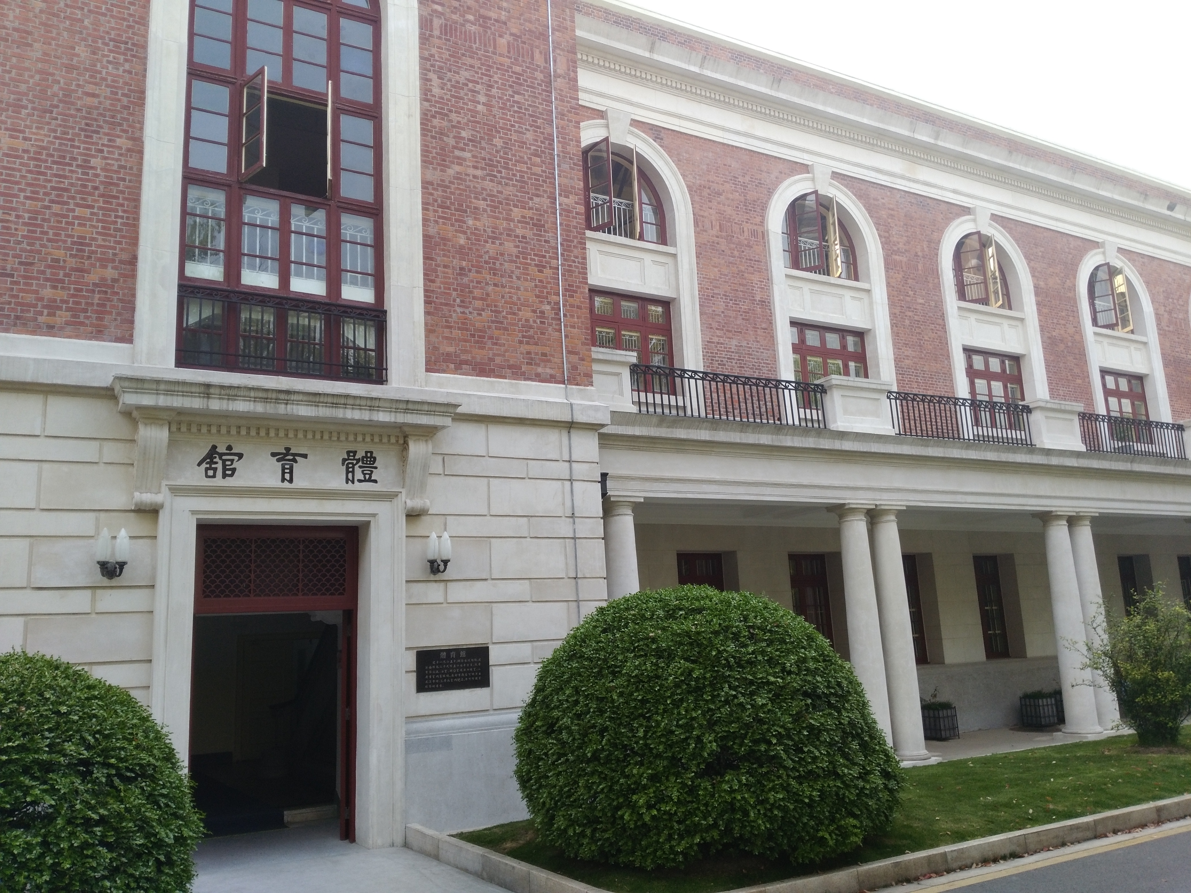 Building on Xuhui campus